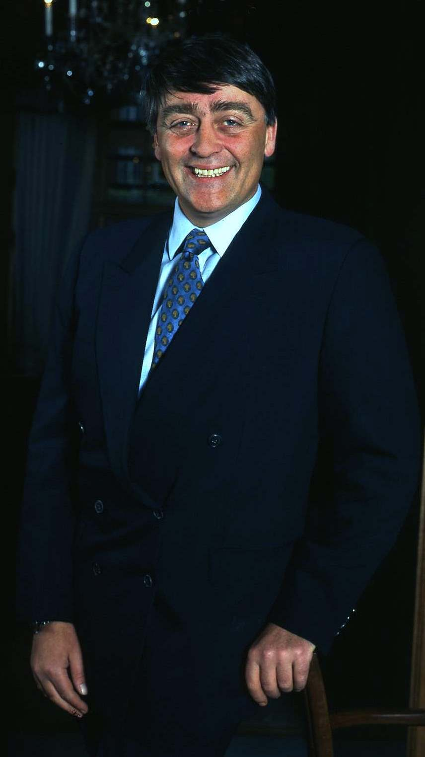 Gerald Grosvenor, 6th Duke of Westminster. Photograph taken in his Mayfair office in London.